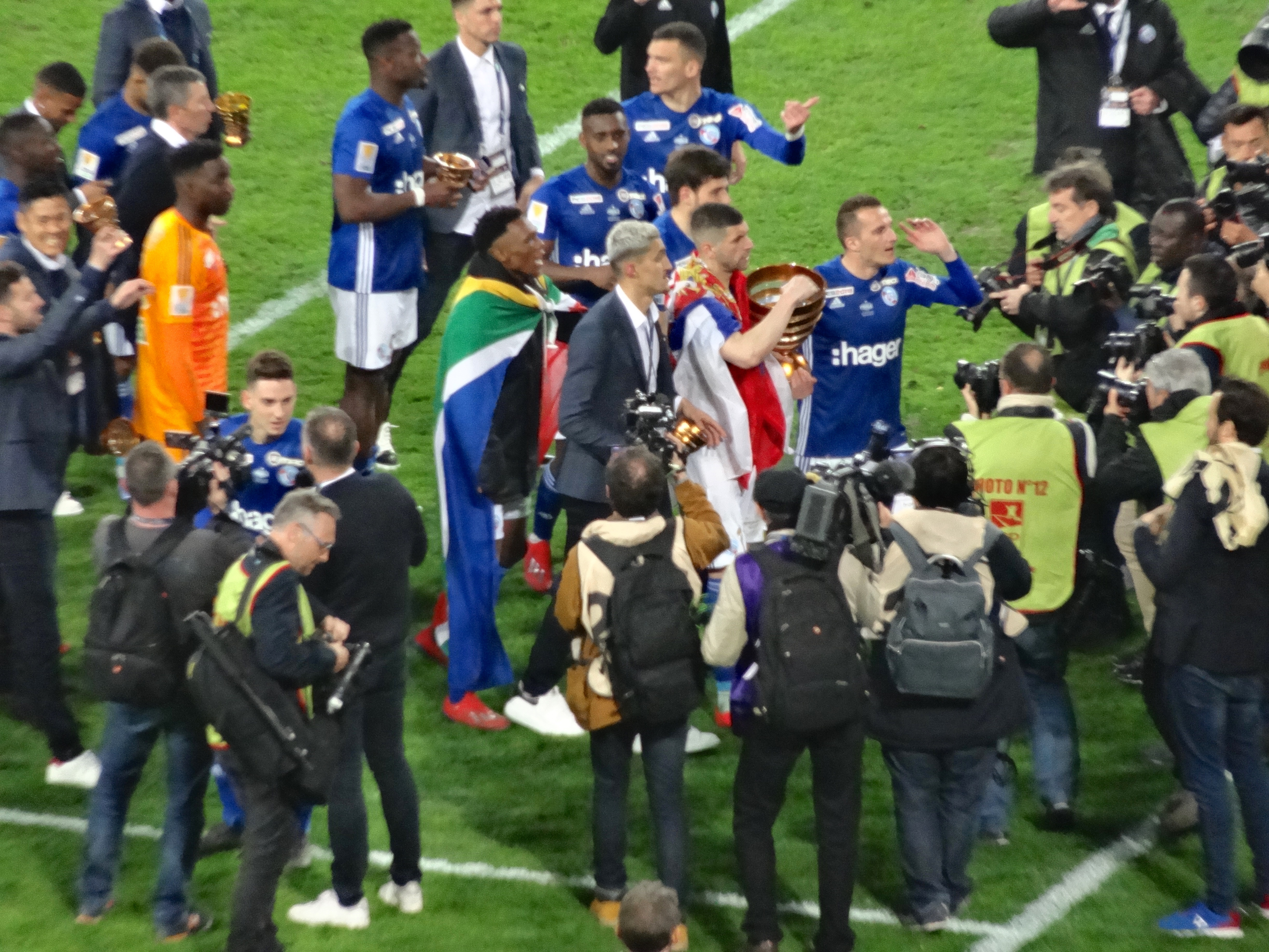 Strasbourg wins the french League Cup 2019